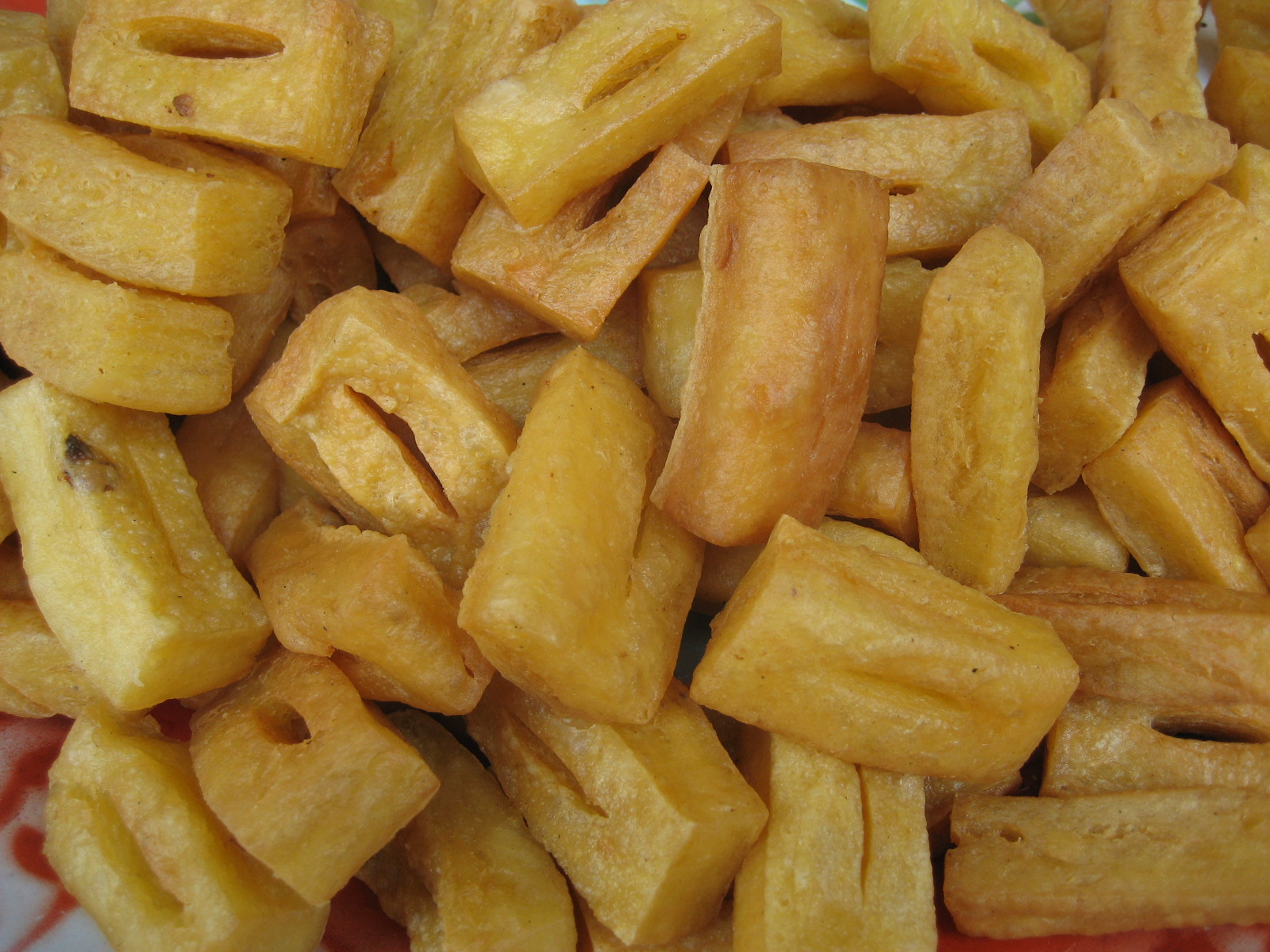 Burmese tofu fritters at a market restaurant in Pyin U Lwin, Myanmar. They are crispy outside and soft inside, popular as a snack or with glutinous rice as a breakfast option, also with mohinga (rice vermicelli in fish soup) or rice noodles.မြန်မာဘာသာ: To hpu gyaw